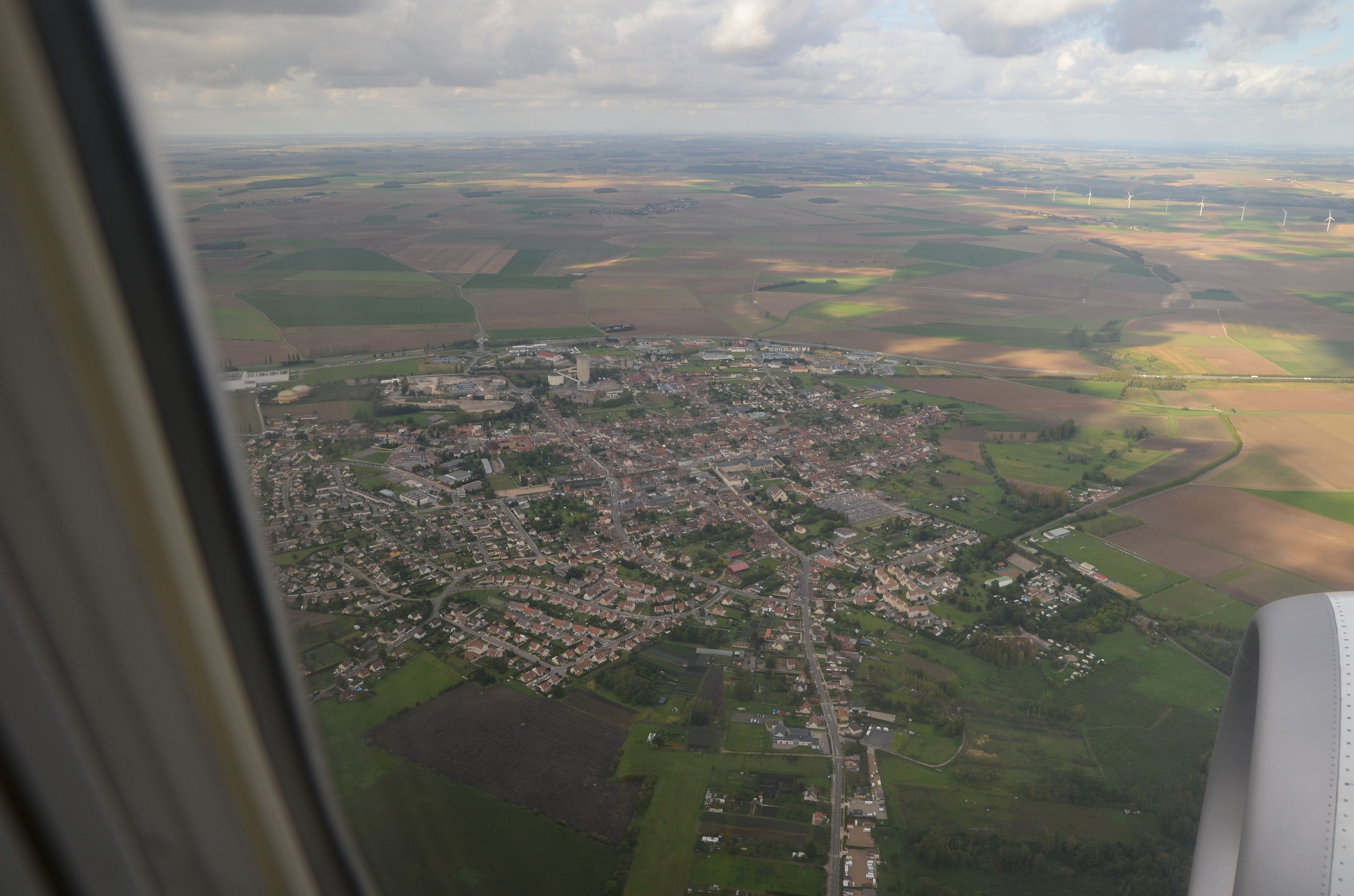 Bresles, Oise, France by plane